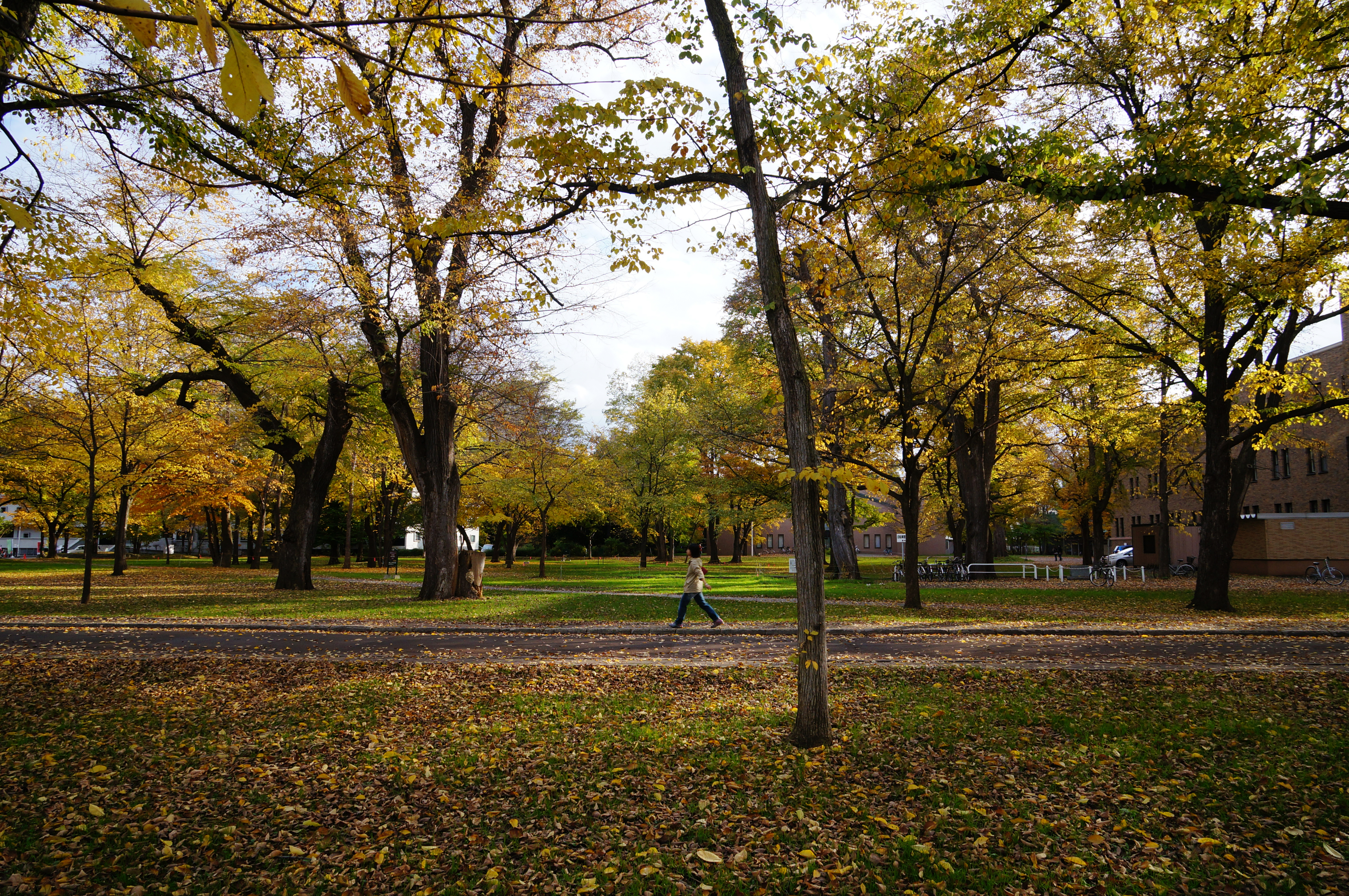 At Hokkaido University in Sapporo, Hokkaido prefecture, Japan.